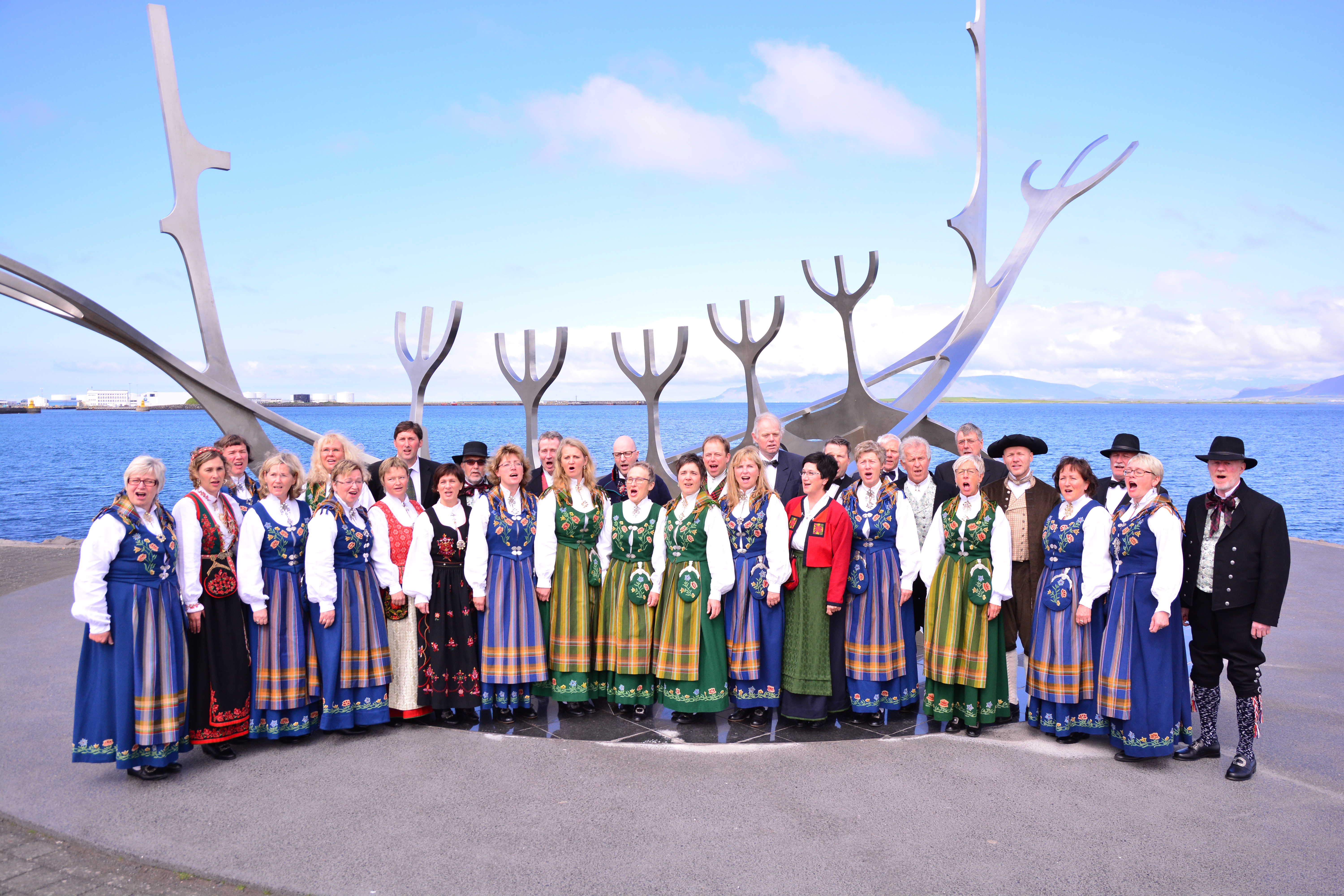 Helgeland Kammerkor in Reykjavík, Iceland: June 2014